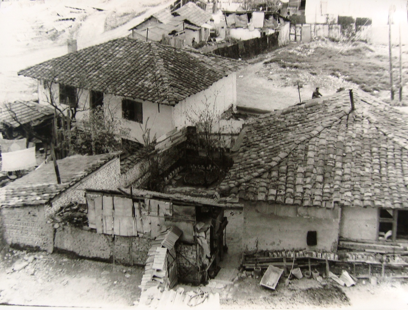 Madzir neighborhood, 1960's This media file is produced by Wikipedian in Residence in Category:Wikipedian in Residence at DARM in 2016.